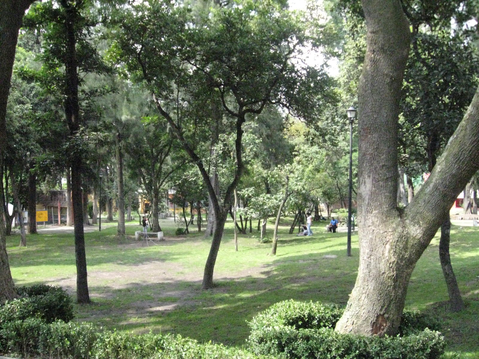 View of the Juana de Asbaje Ecological Park located in the Tlalpan borough of Mexico City